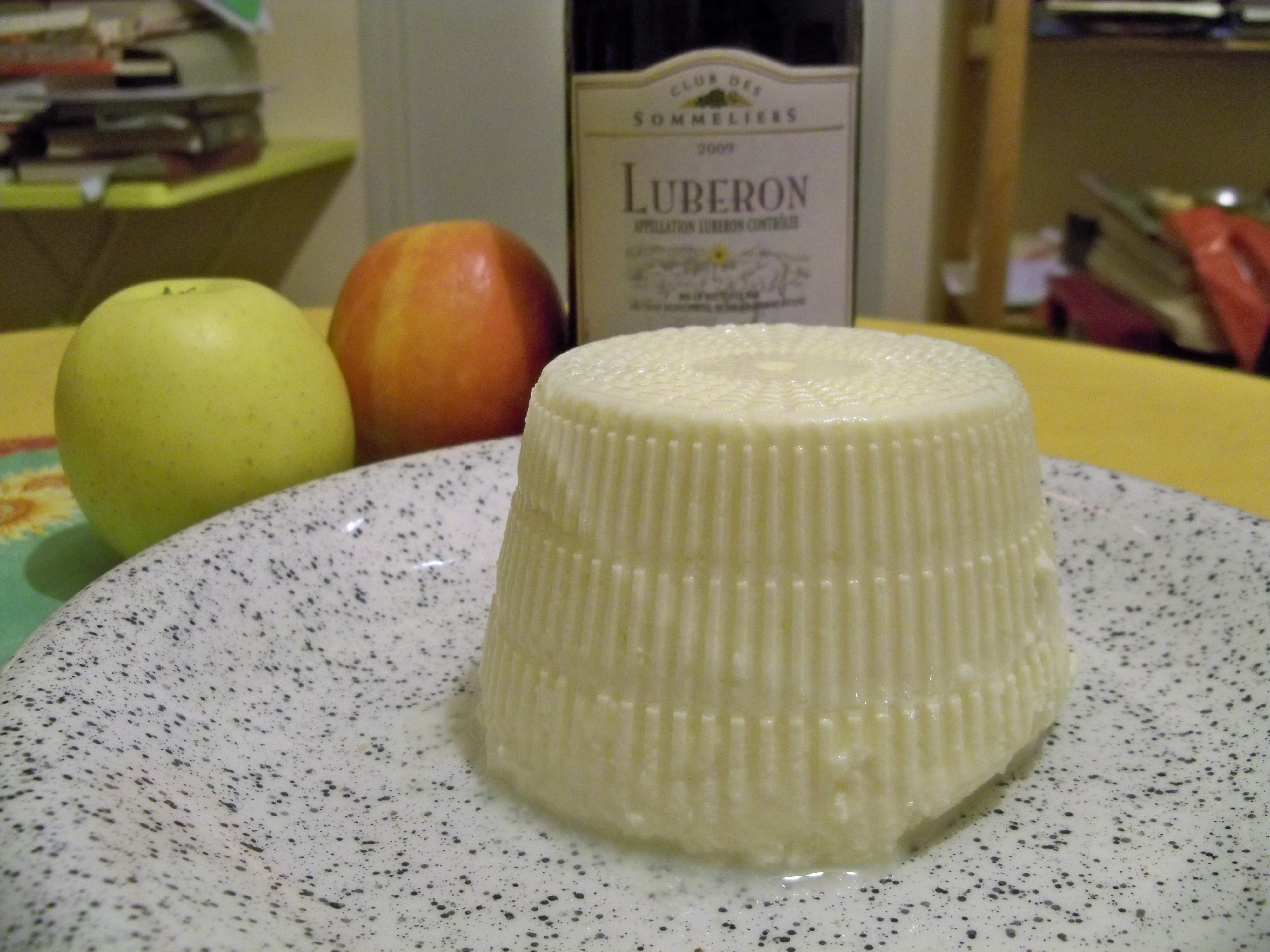 Brousse, Cheese from Alpes-de-Haute-Provence (France)